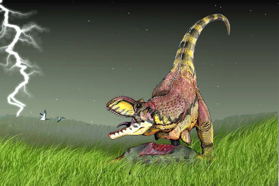 Rajasaurus narmadensis, a theropod dinosaur from the Late Cretaceous of India